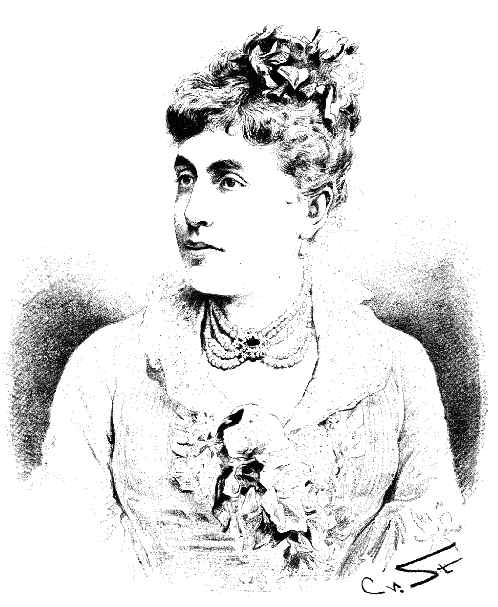 Alexandrine von Schönerer (1850-1919), Austrian actress and theatrical director